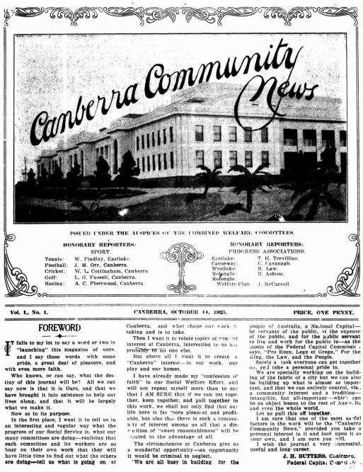 Front page of first issue Canberra Community News, 14 October 1925.